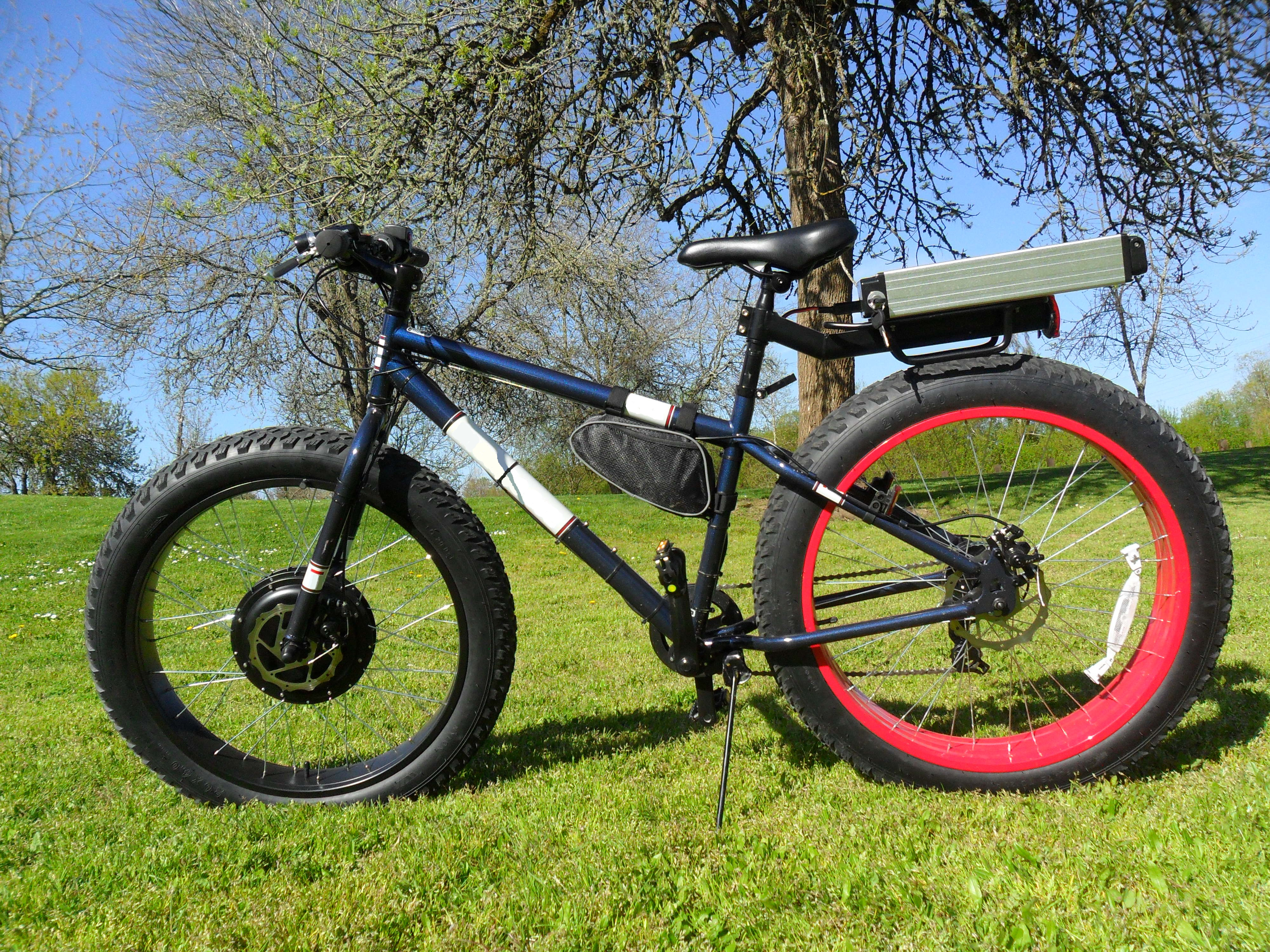 Ensey Motorized Bikes Fat Tire Bike